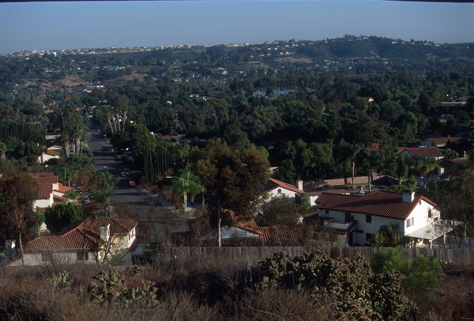 View south across Bonita Valley from Bonita Downs. John Niekrasz.